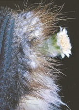 Plant from holotype collection, Minas Gerais, Brasil